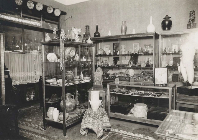 La galerie au Khan Khalili- Le Caire 1950